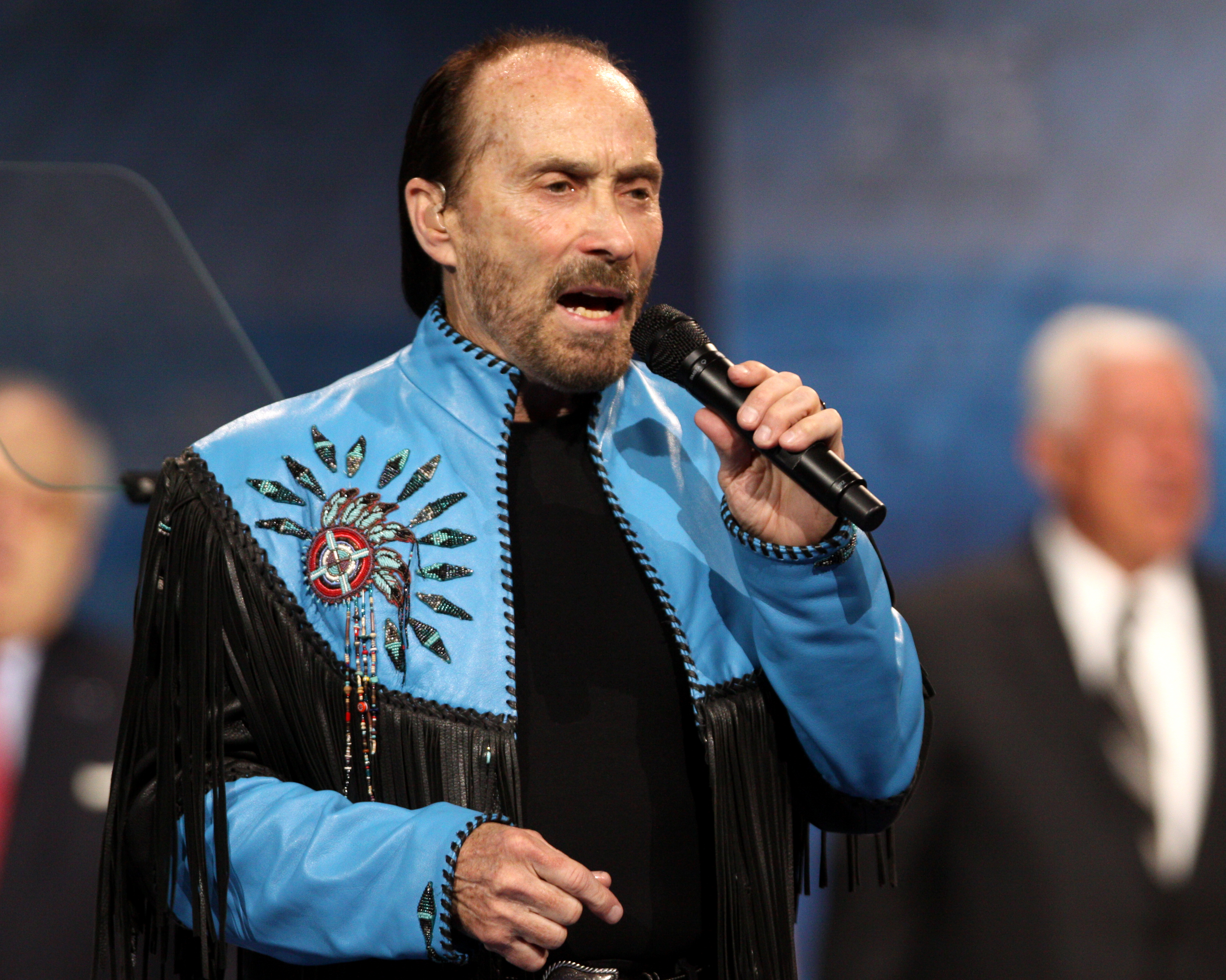 Lee Greenwood speaking at the 2013 CPAC in Washington, D.C.